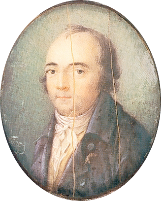 Portrait of Ludwig Ferdinand Huber.